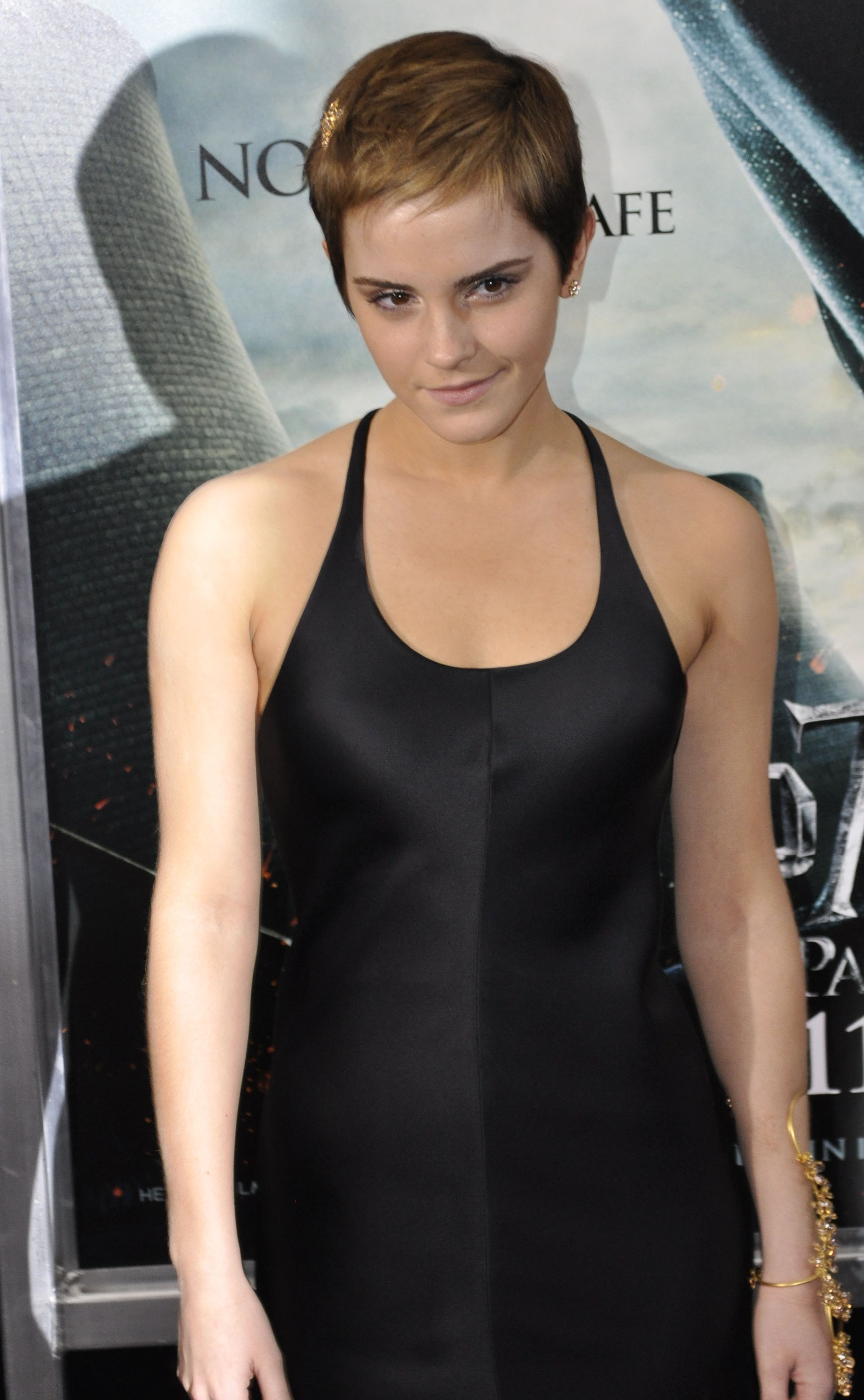 Emma Watson at the film premiere of Harry Potter and The Deathly Hallows in Alice Tully Center, New York City in November 2010.